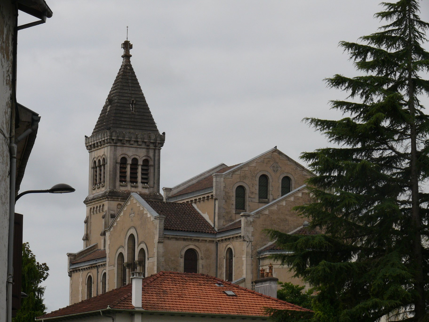 Saint-Vincent-de-Xaintes' church of Dax (Landes, Aquitaine, France).